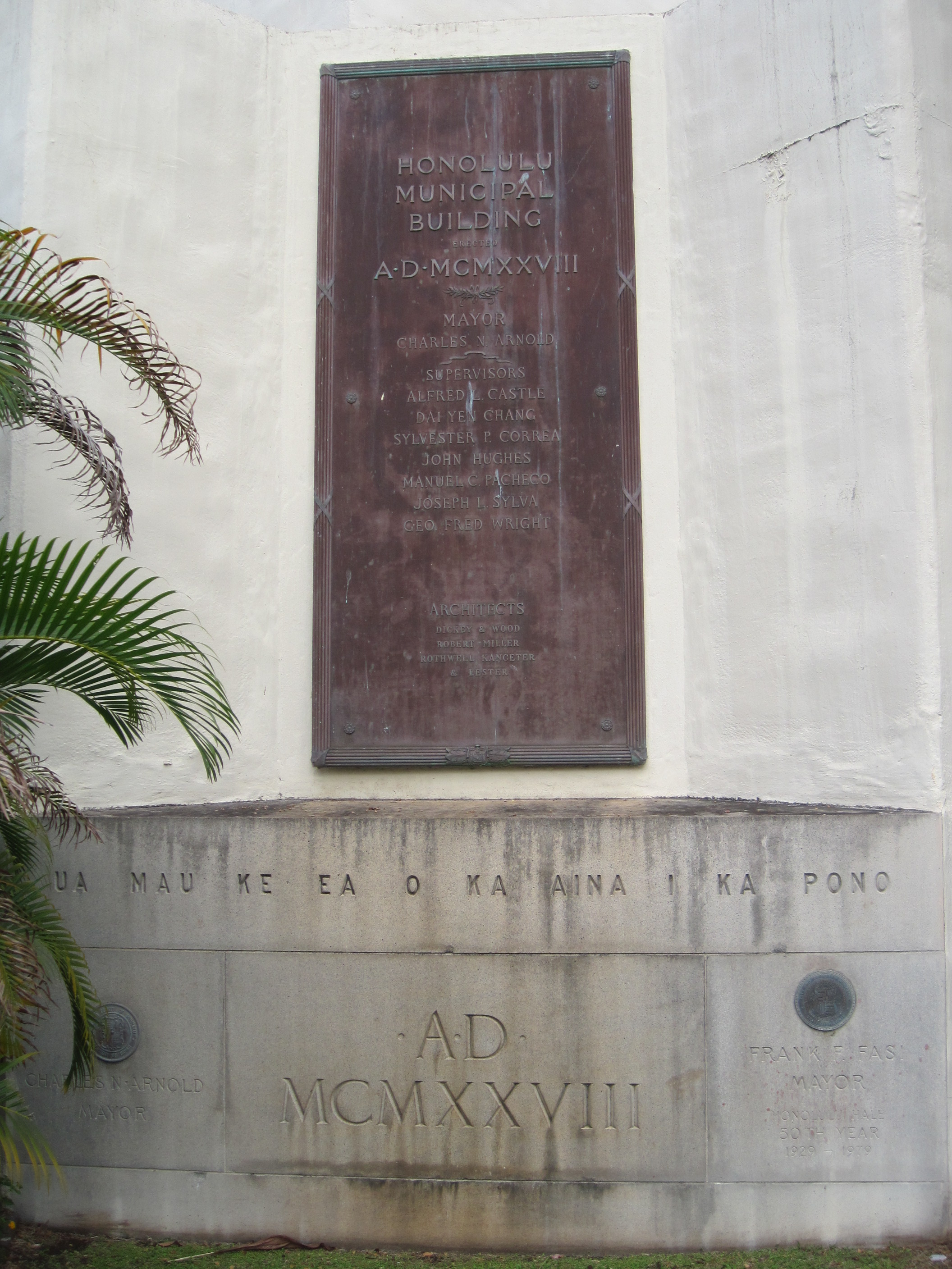 Dedication plaque, Honolulu Hale, City Hall of Honolulu, Hawaii